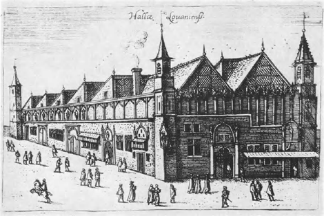 Leuven Cloth Hall before the reconfiguration at the end of the 17th century (from J.-B. Gramaye, Antiquitates illustrissimi ducatus Brabantiae, 1610)